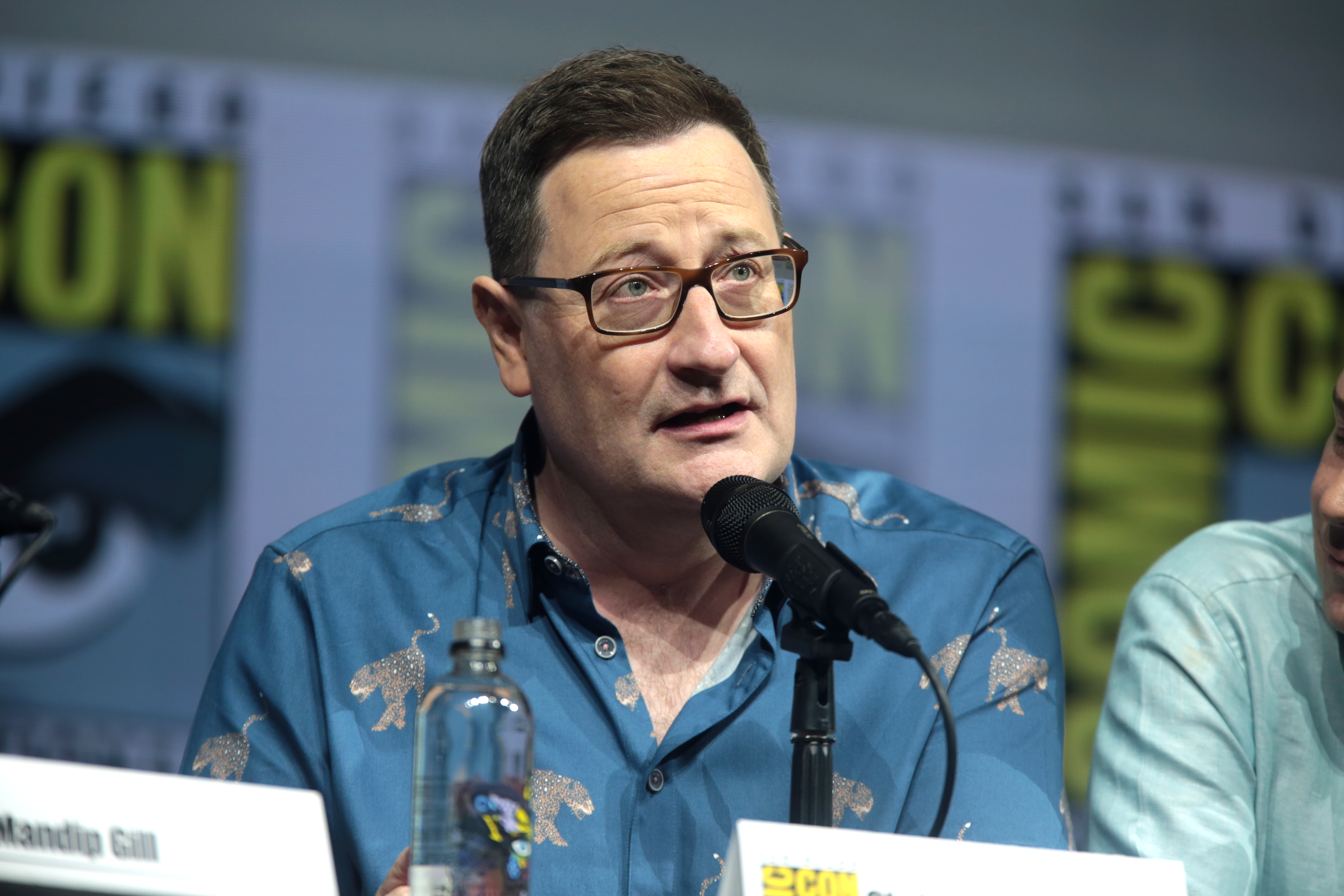 Chris Chibnall speaking at the 2018 San Diego Comic Con International, for "Doctor Who", at the San Diego Convention Center in San Diego, California.